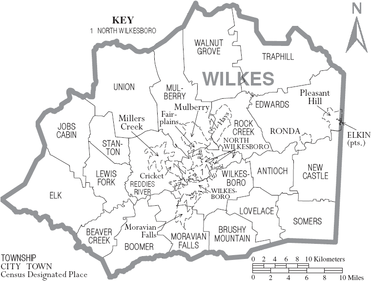 Map of Wilkes County, North Carolina, United States with township and municipal boundaries